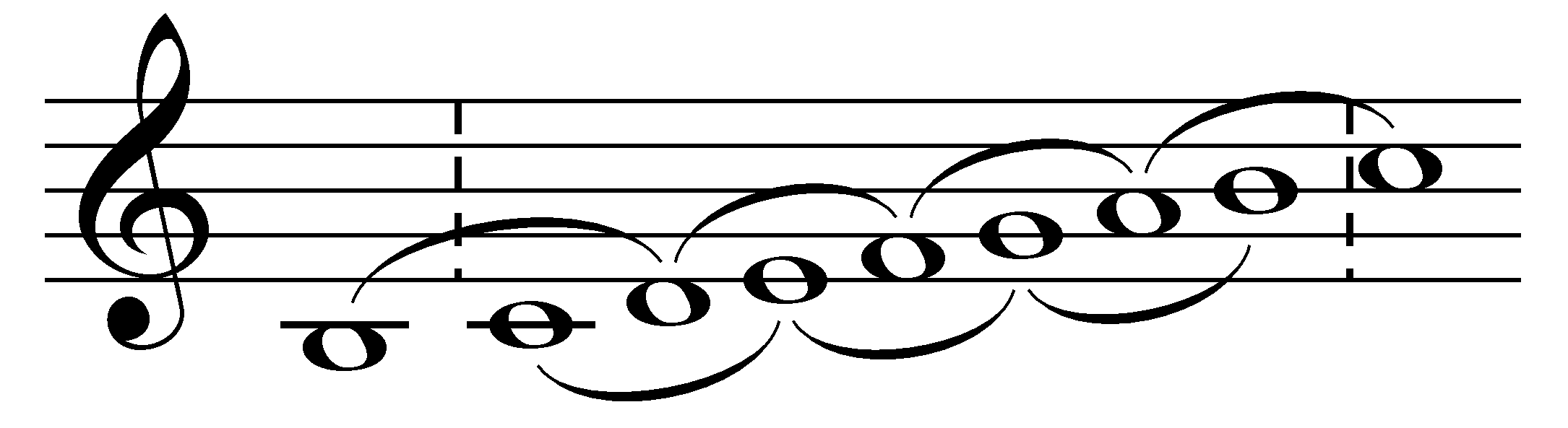 Contiguous trichords in C major. Created by Hyacinth (talk) 20:59, 15 March 2011 (UTC) using Sibelius 5.